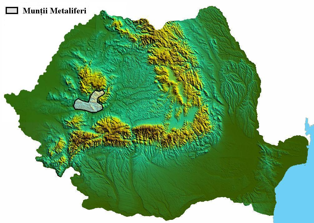 Elevation shaded contour of Romania Global Shader of Romanian DEM data.